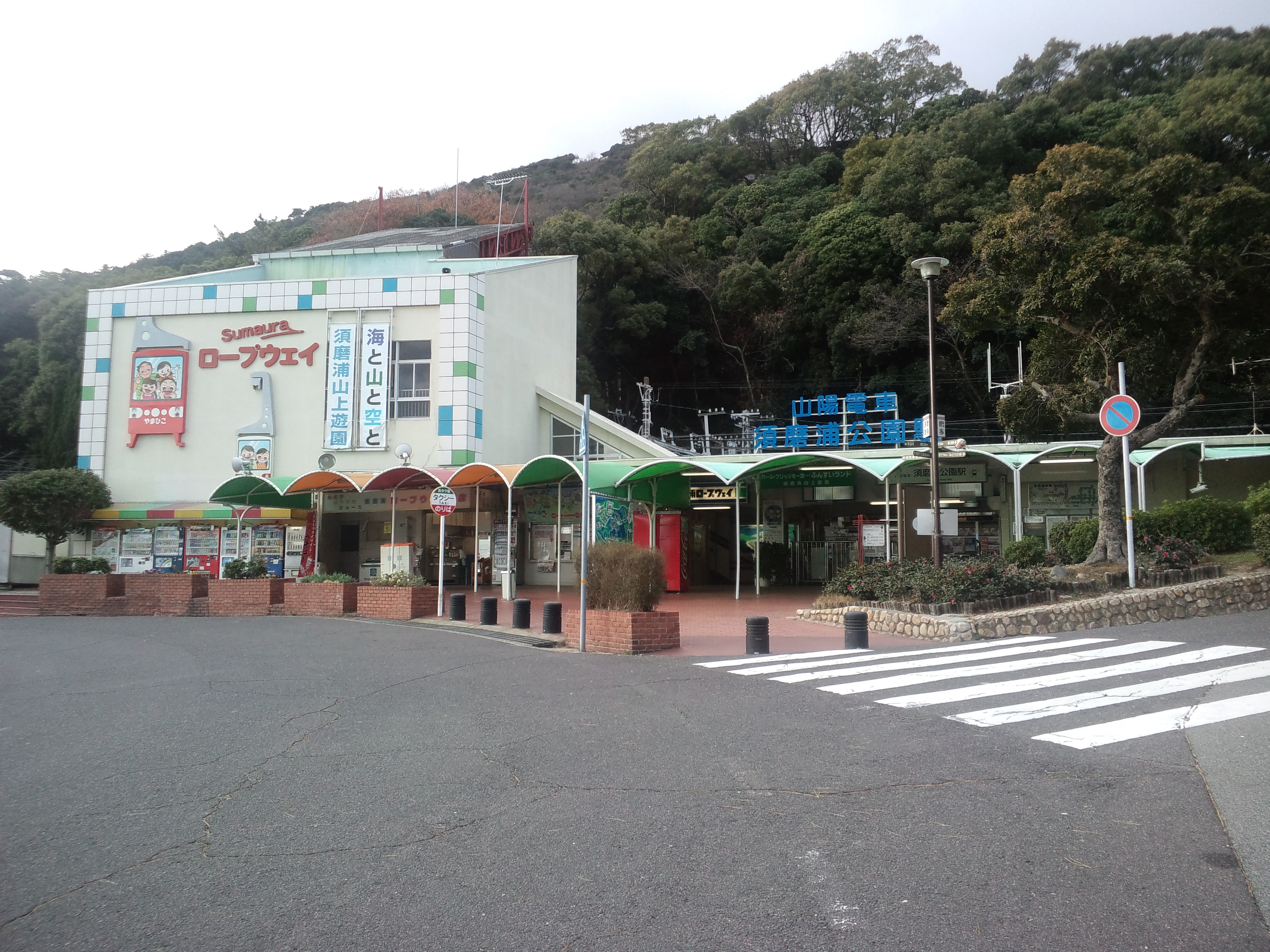 Sanyo Railway Sumaura-koen Station